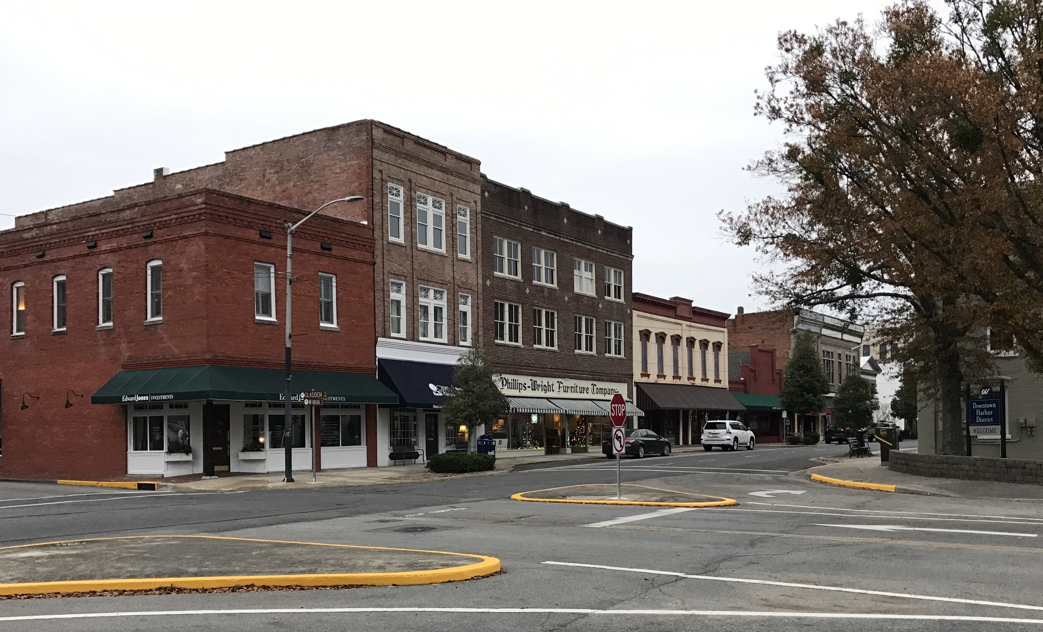 Washington from the corner of Stewart Street and West Main Street, Washington, North Carolina; part of the Washington Historic District.